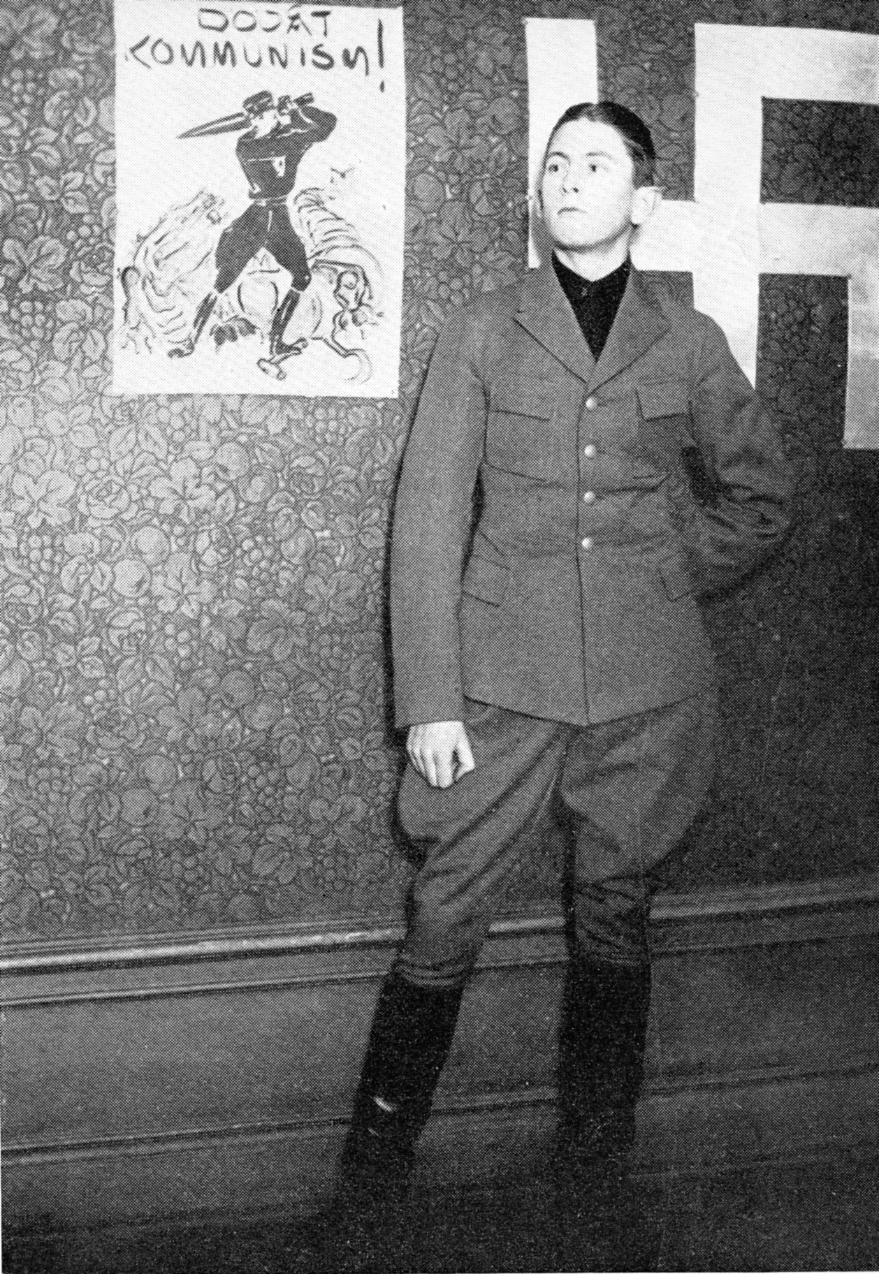 The leader for the Swedish fascist organisation Sveriges Fascistiska Kamporganisation (later Nationalsocialistiska folkpartiet), Konrad Hallgren, in the 1920's.